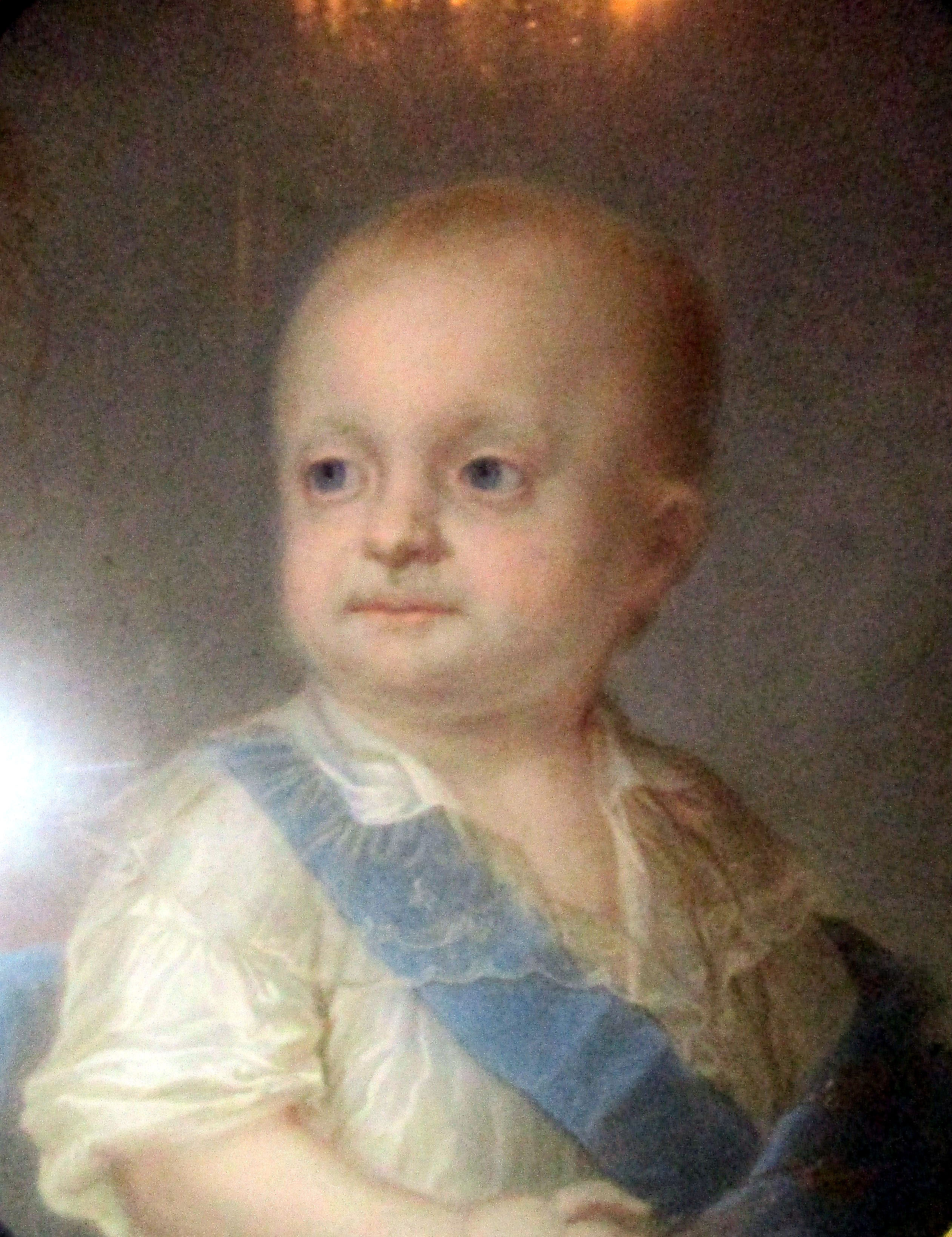 Not possible for an ordinary castle visitor to take a better photo of this work of art due to reflections in the glass on it